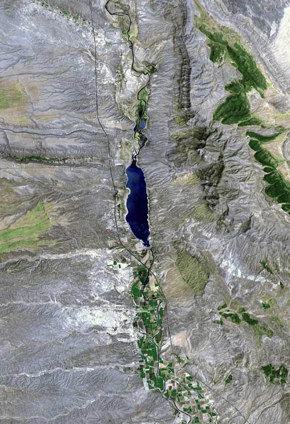 The raw satellite imagery shown in these images was obtain from NASA and/or the US Geological Survey. Post-processing and production by